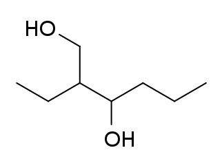 i drew this anyone can use it